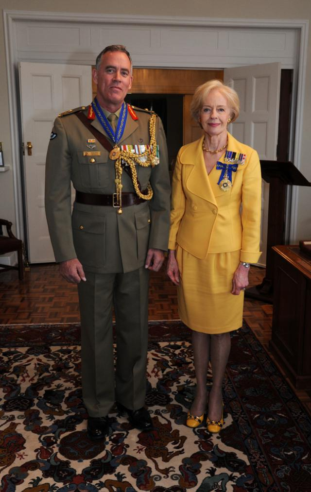 The Governor-General invests Major General Tim McOwan AO DSC CSM with the insignia of Officer of the Order of Australia.